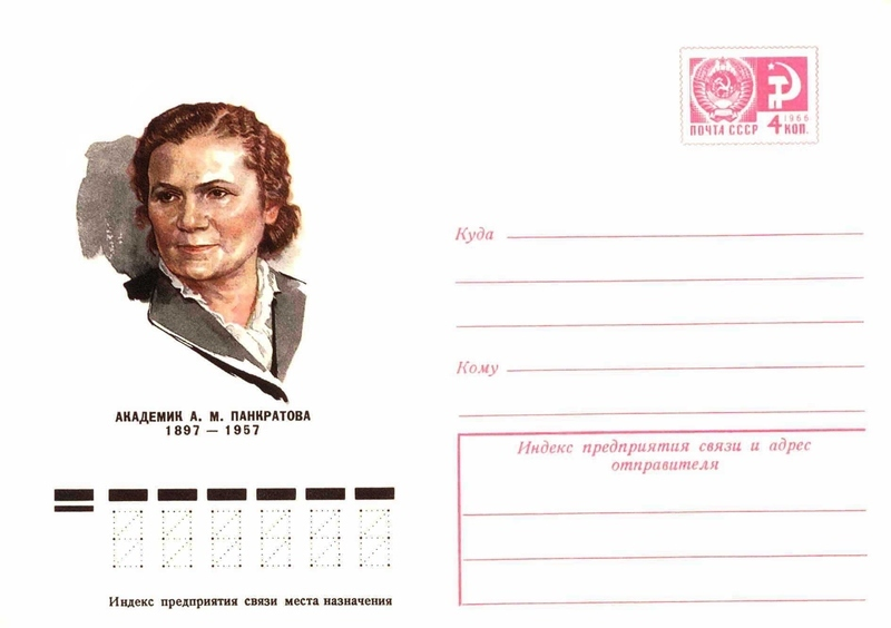 1977 postal cover of the Soviet Union featuring a portrait of Anna Pankratova.